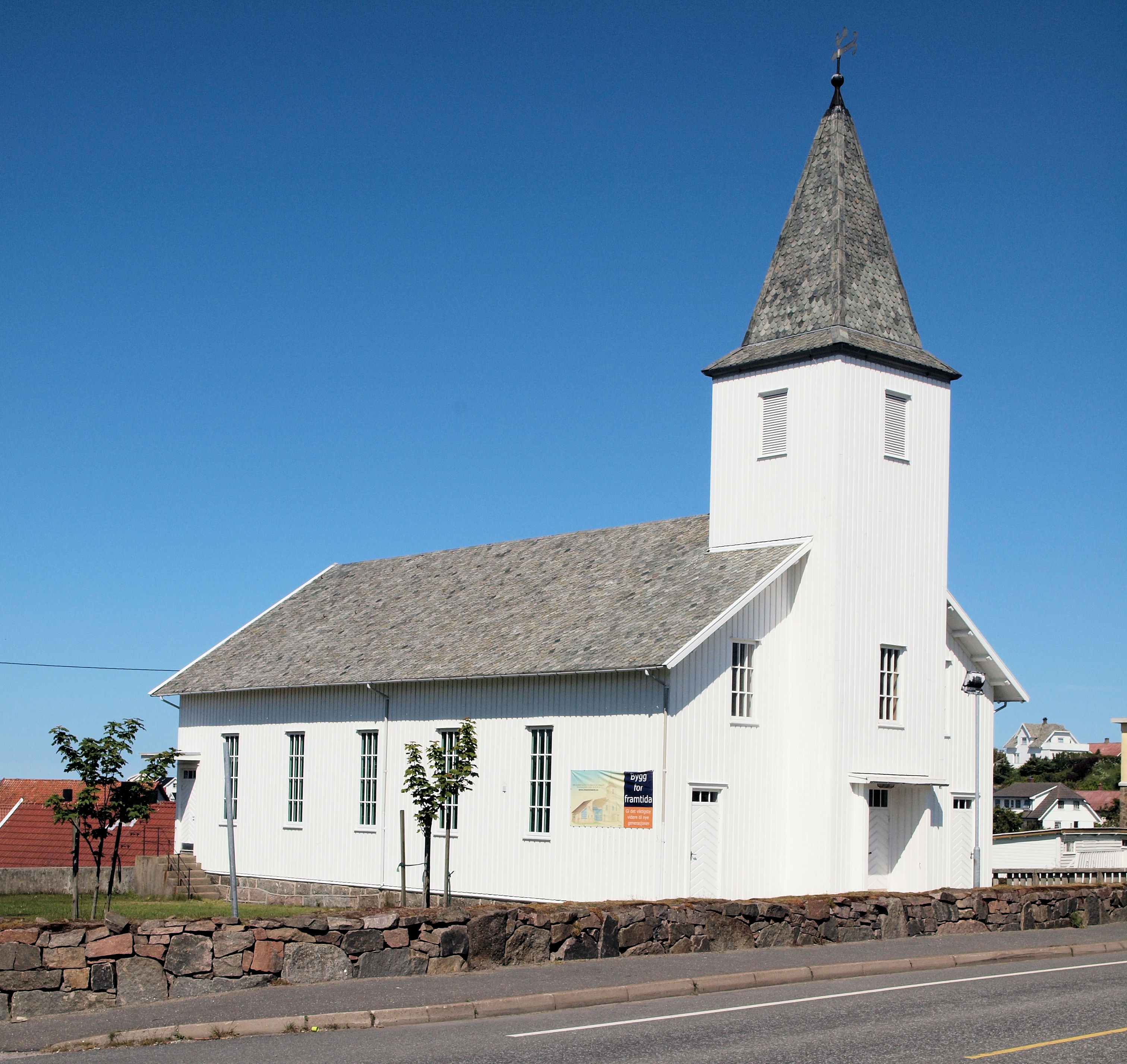 Churche Borhaug (Lista, Farsund) Norway